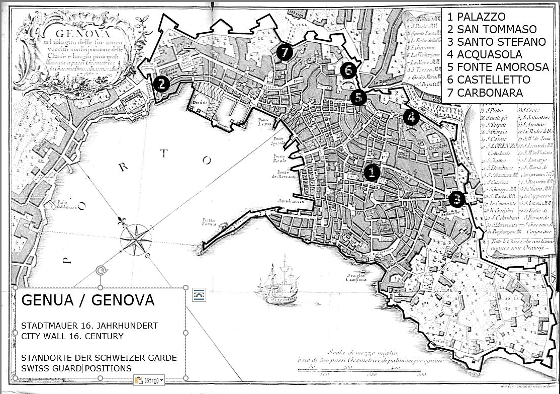 Genoa and the City Wall from the 16. Century with the Gates S.Tommaso, S. Stefano, Fontana Amorosa, Acquasola, Carbonara, the Forteress Castelletto and the Positions of the German and Swiss Guard